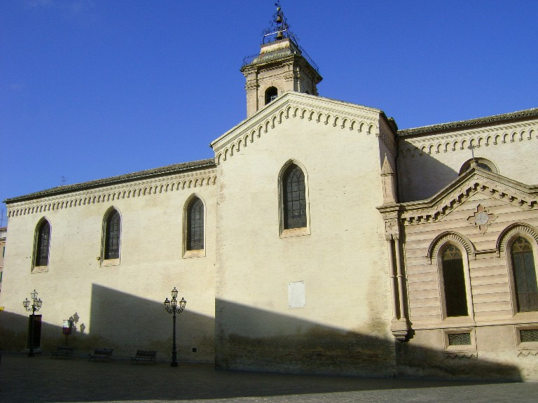 The right side of the cathedral of St. Giuseppe to Vasto